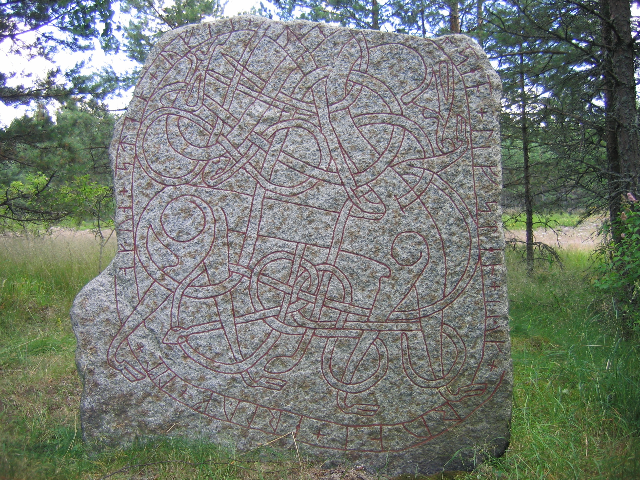 Runestone U 1164 in Västerlövsta Parish, Heby Municipality, Uppsala County, Uppland, Sweden.